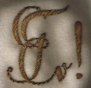 Sign of Munich Fraternity Germania